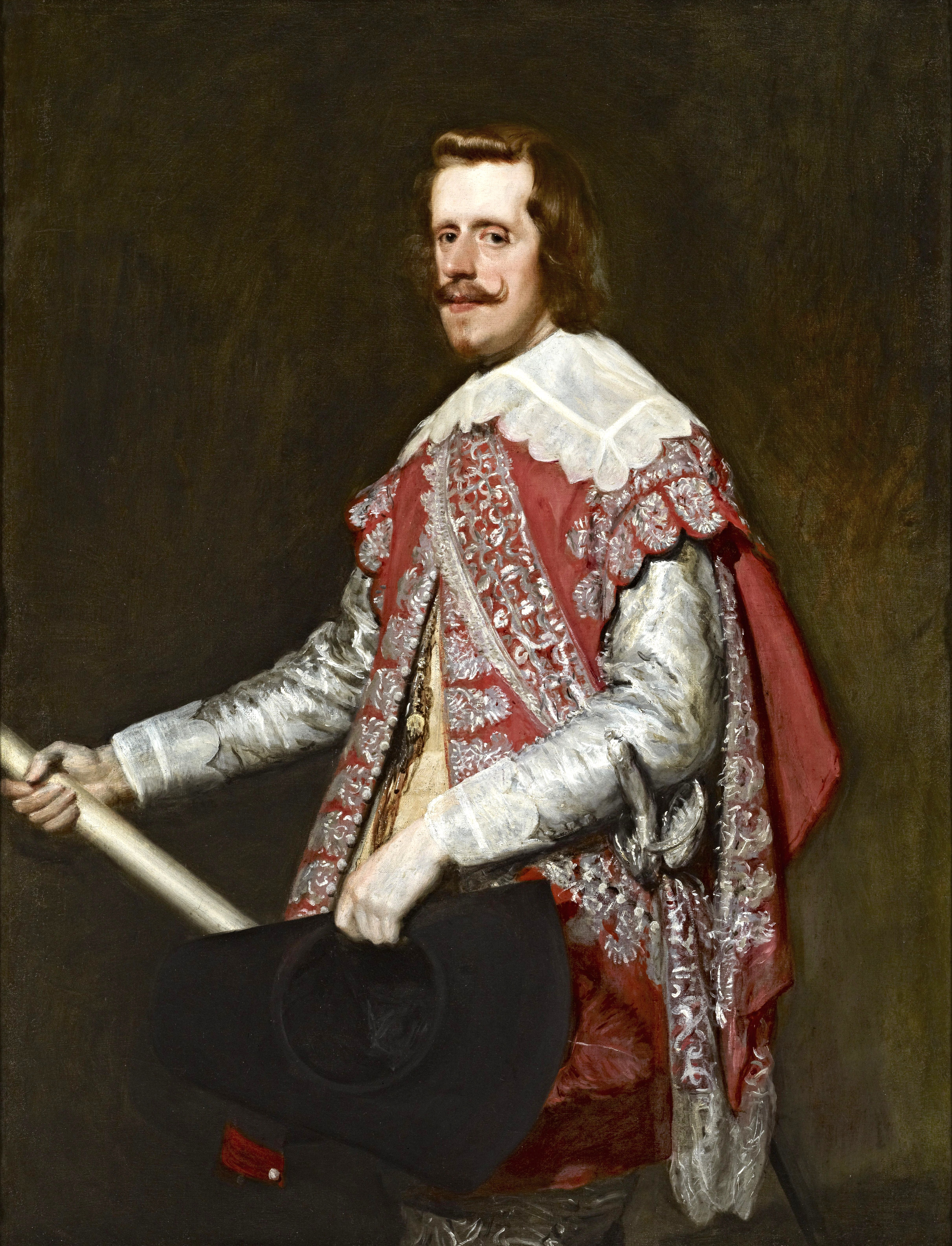 Philip IV of Spain.